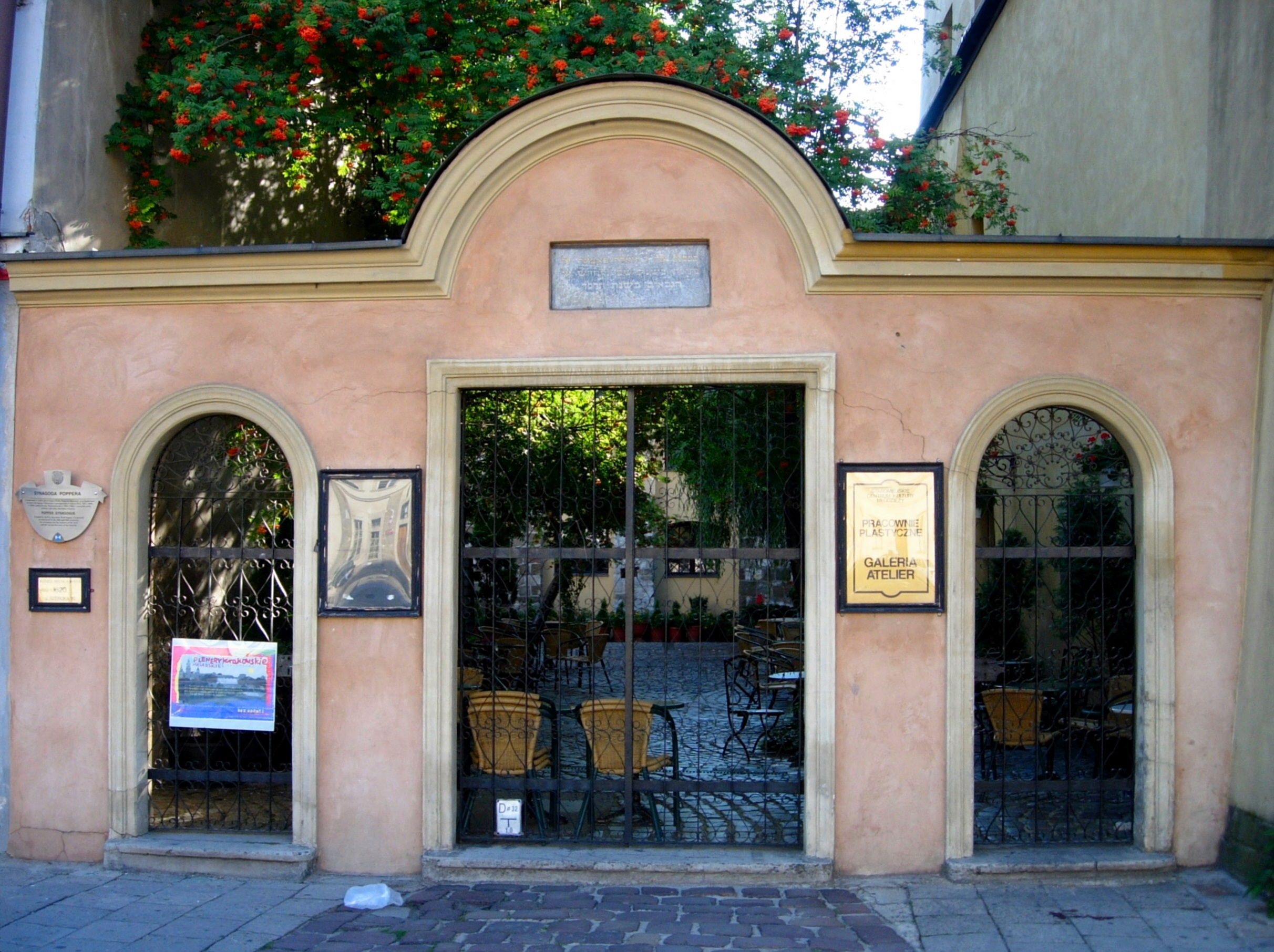 The entrance gate of The Popper Synagogue in Kraków